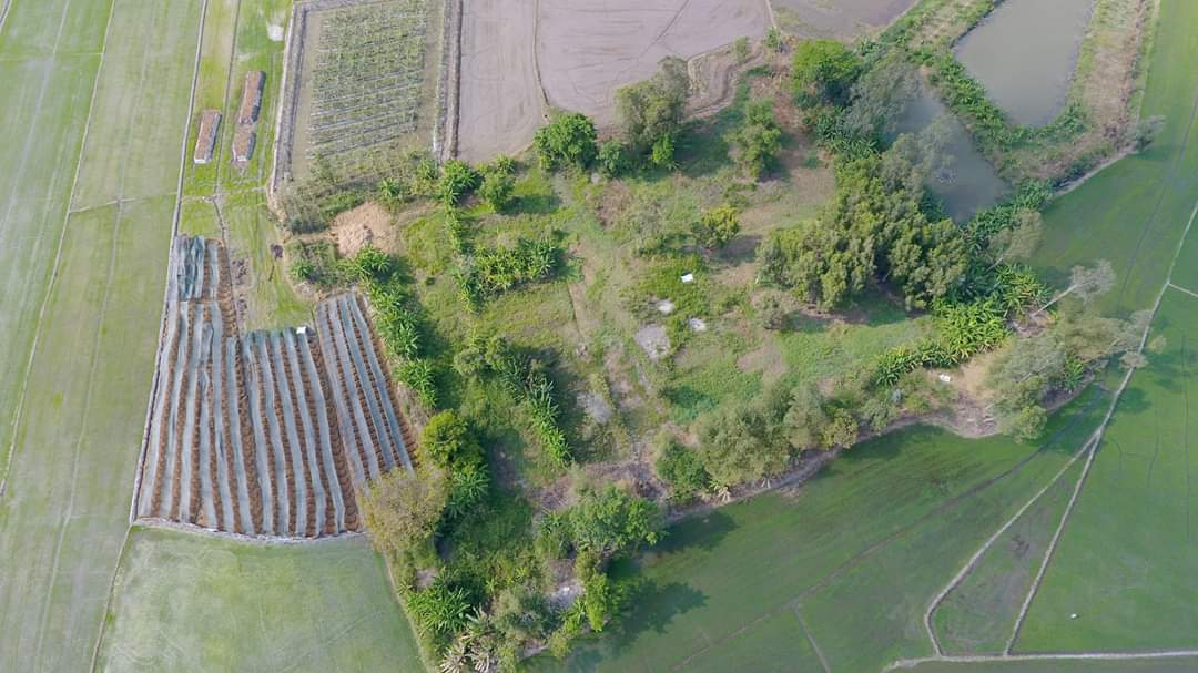 Lavium